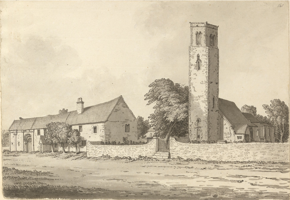 St Peter at Gowt’s Church and the St Mary Guildhall by S.H. Grimm 1784